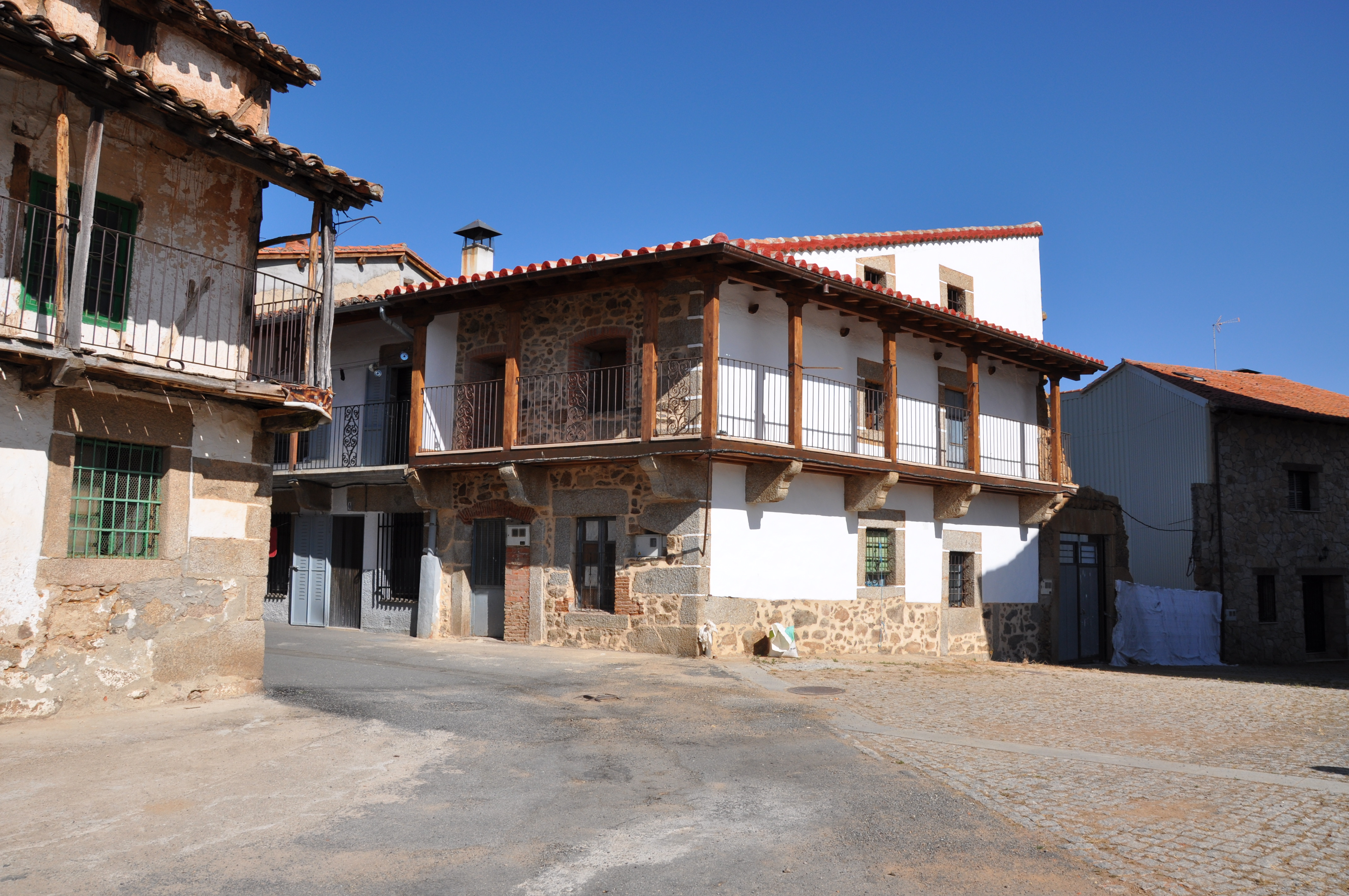 Popular architecture in Becedas, Ávila, Spain